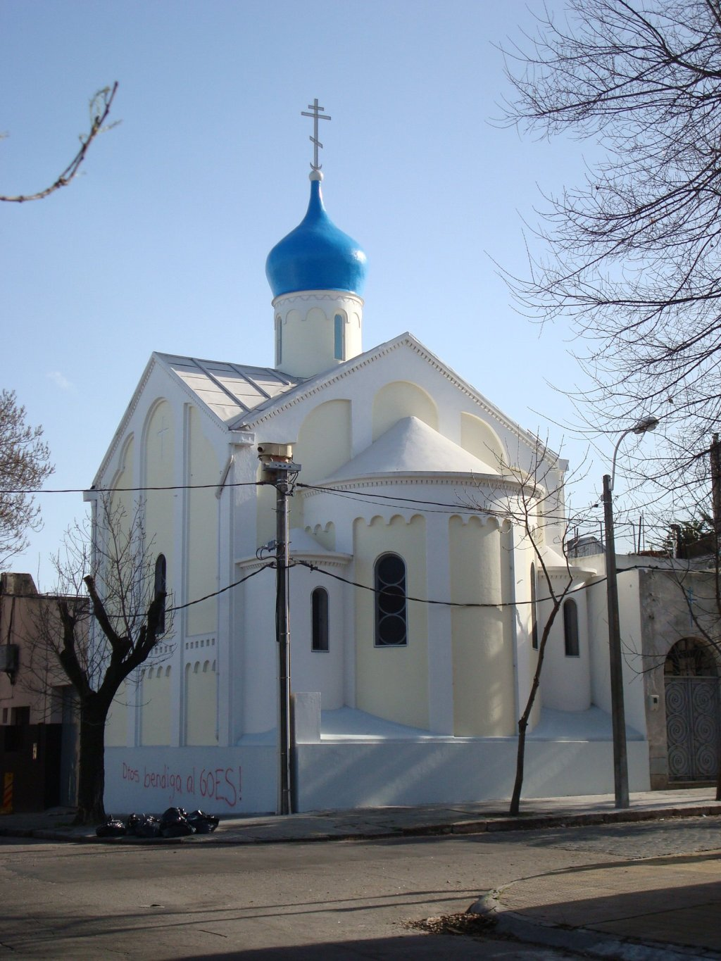 Eastern Orthodox Church, La Figurita, Montevideo, Uruguay.